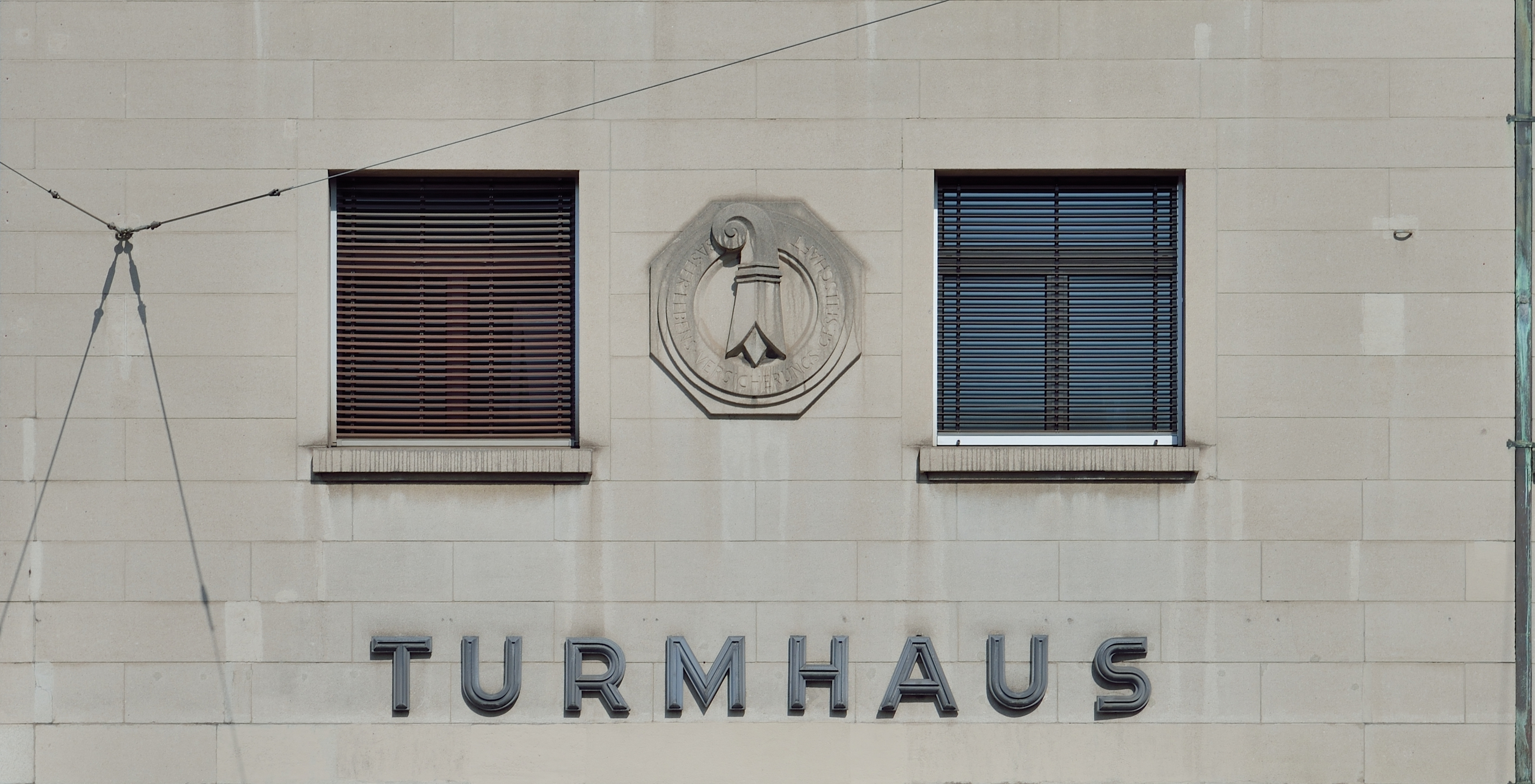 Basel: Tower building